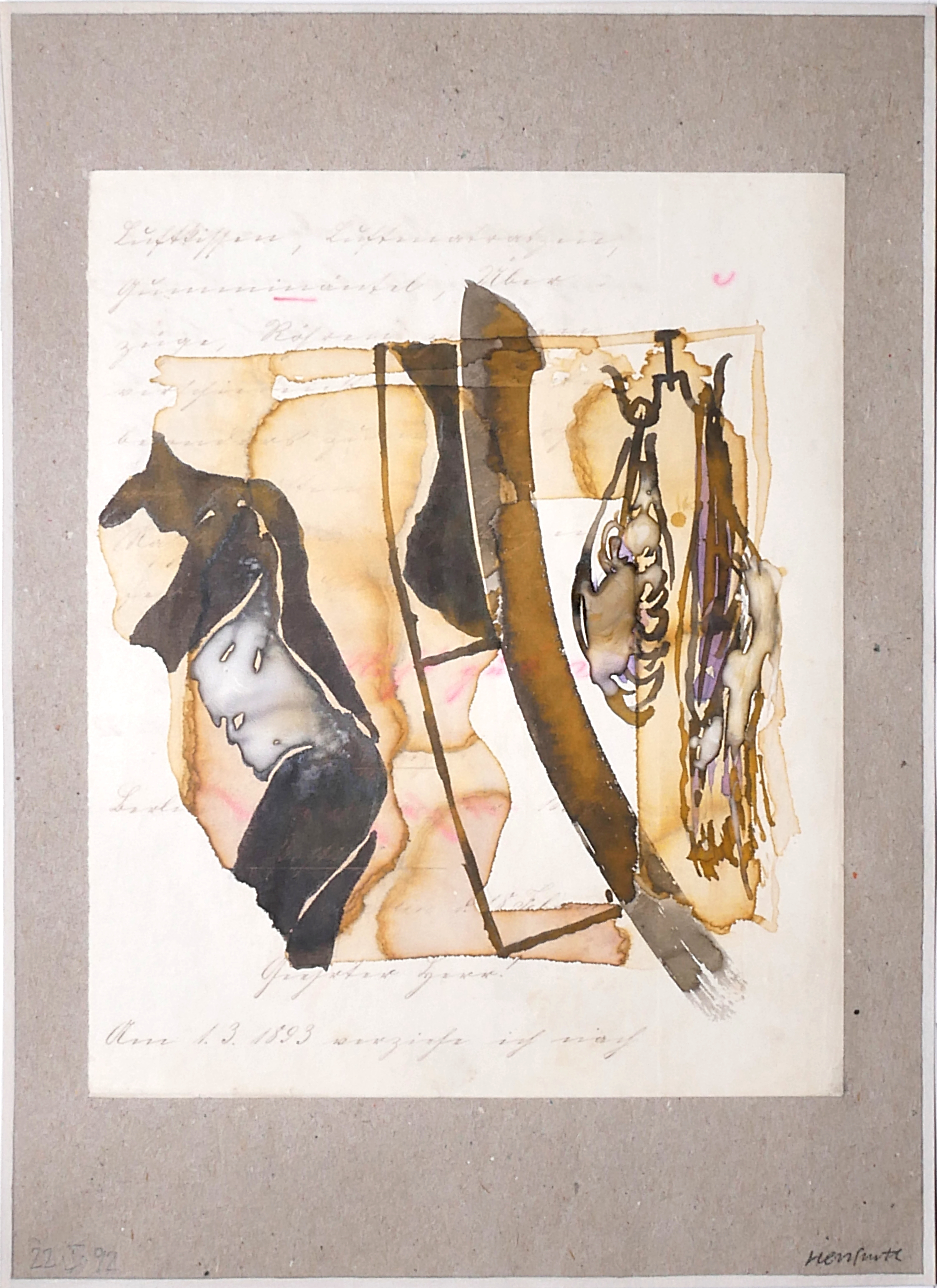 Karl-Heinz Herrfurth, painted with mixed techniques on historical papers, dated 22.02.1992